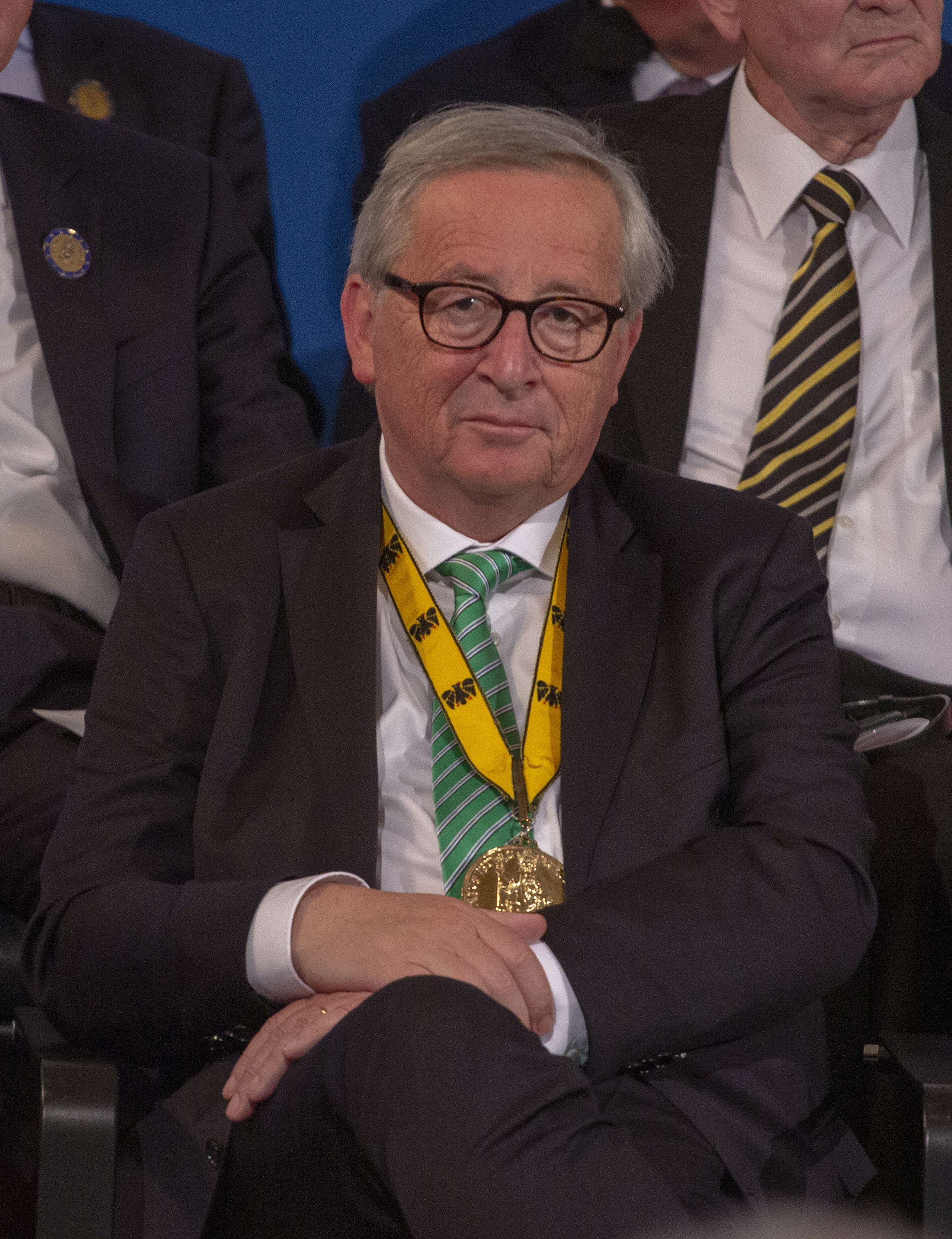 Jean-Claude Juncker at Aachen Town Hall: Charlemagne Prize 2019.